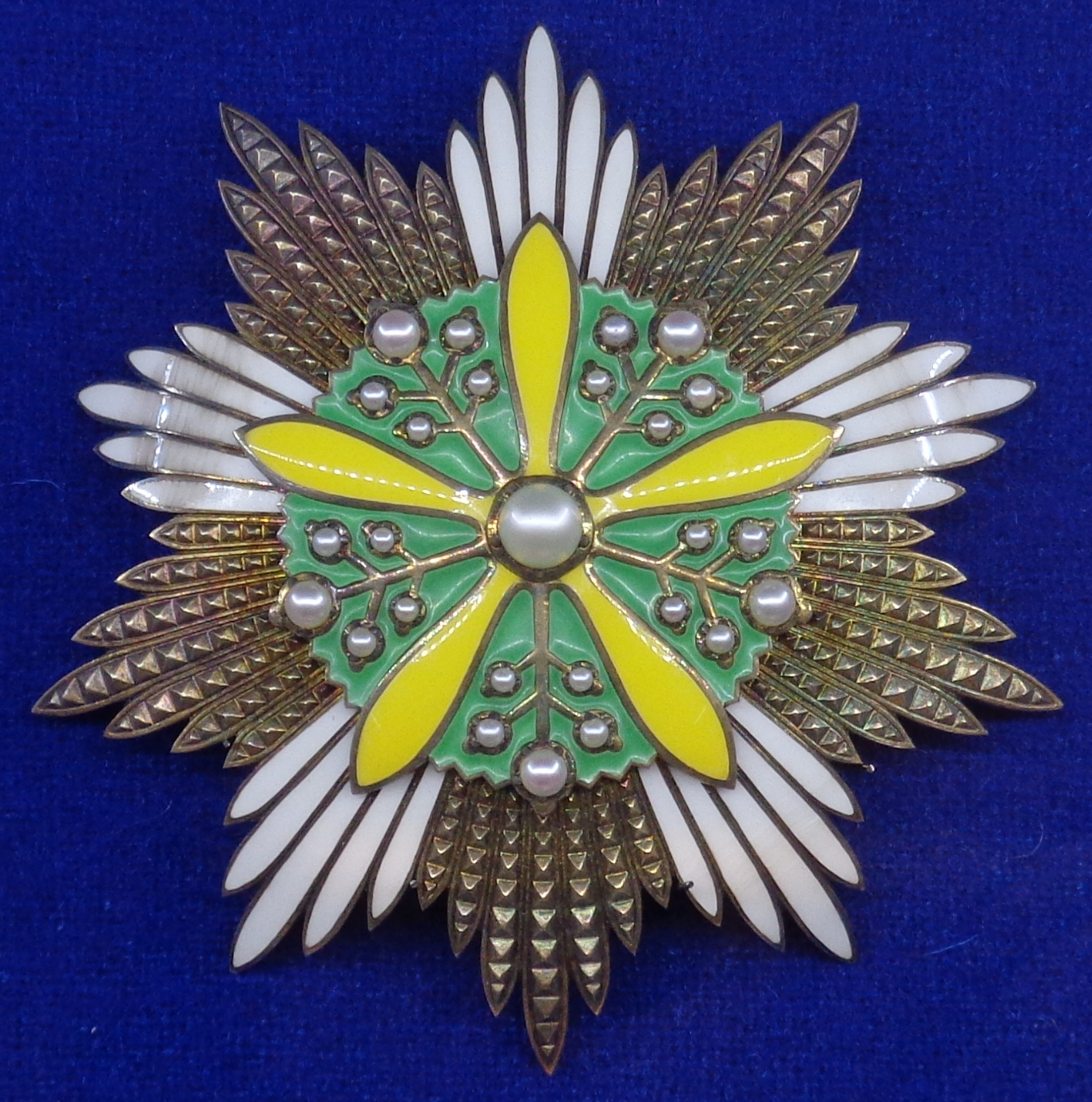 Order of the Orchid Blossom, star. Empire of Manchukuo. The exhibition of the Tallinn Museum of Orders of Knighthood, Estonia.